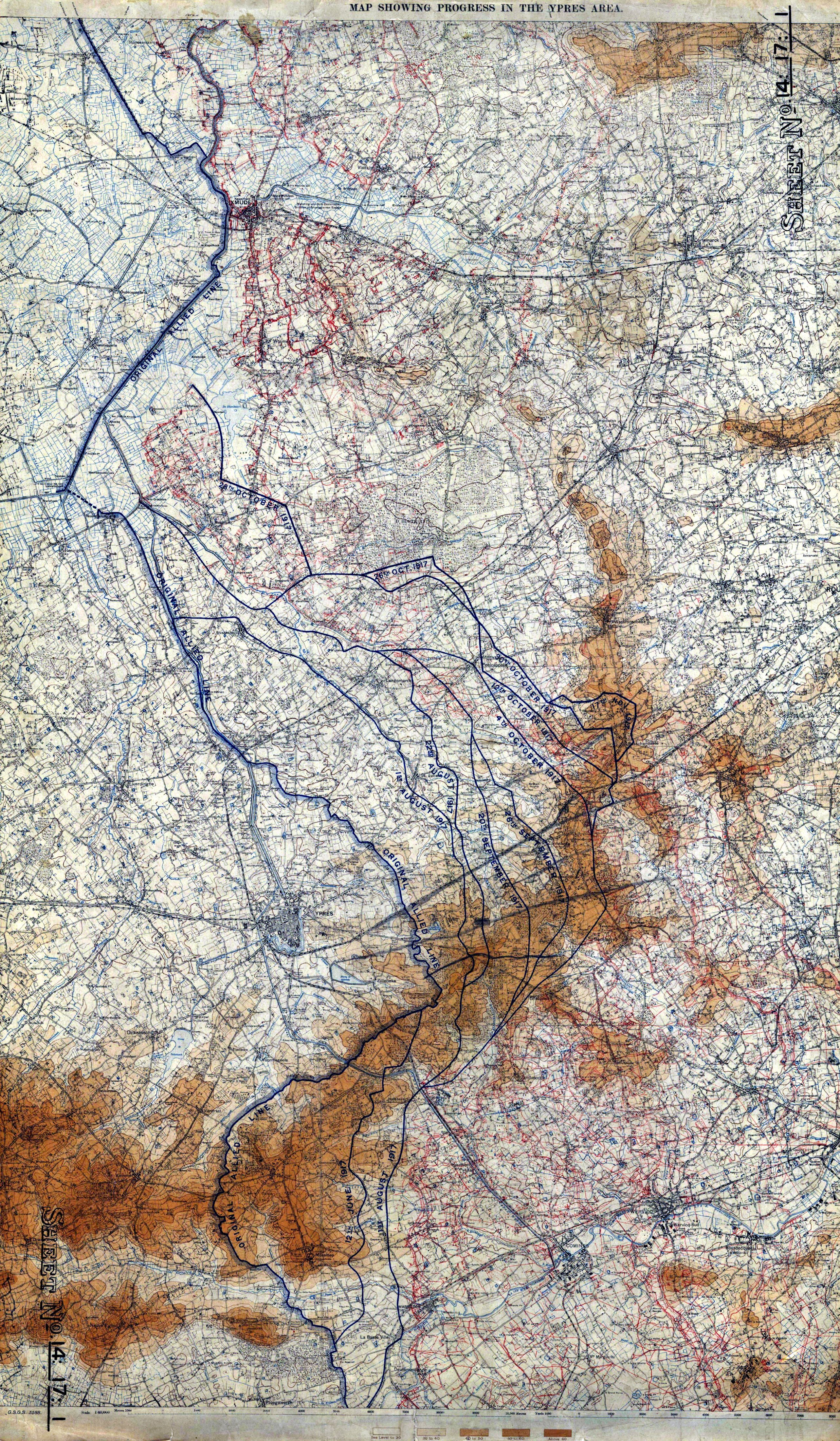 Map showing progress in the Ypres area, 1 Aug to 17 Nov, 1917. 8th edition. GSGS 3588. 1:40,000. War Office.